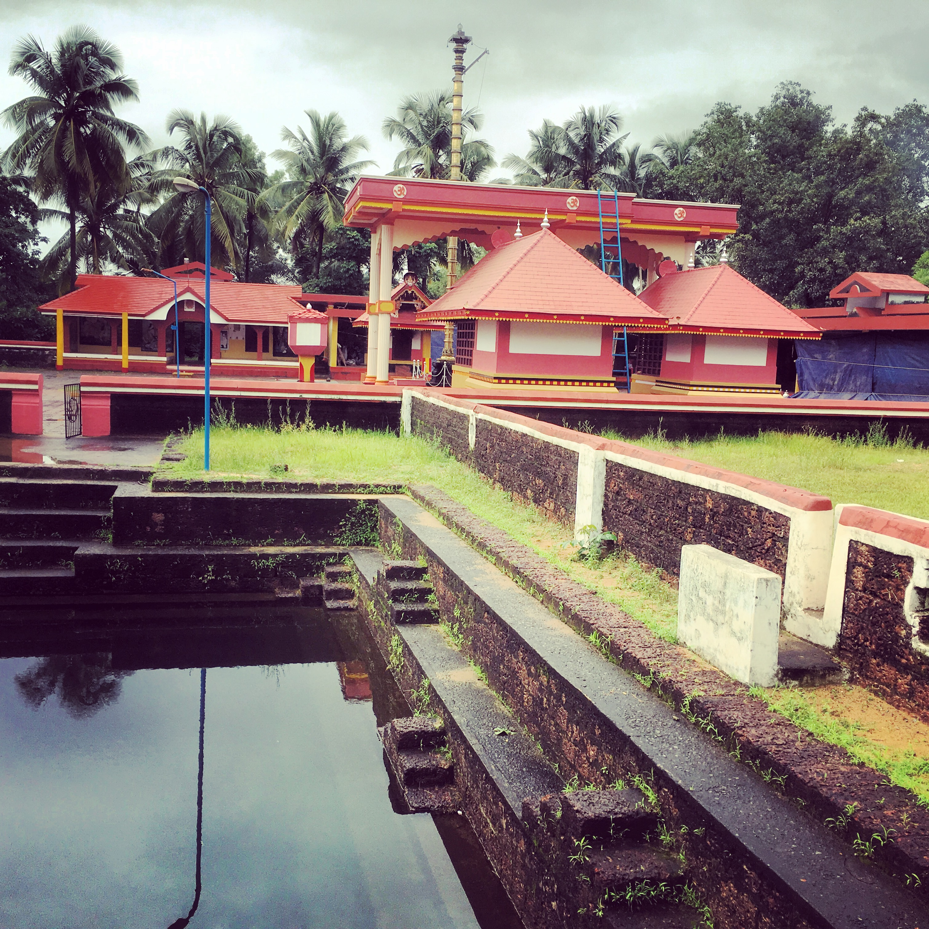 Temple situated at one among the beaches (Ajanur Beach) of Kanhangad. Goddess Sree Kurumba is the main deity of the temple and the protector of the locality.